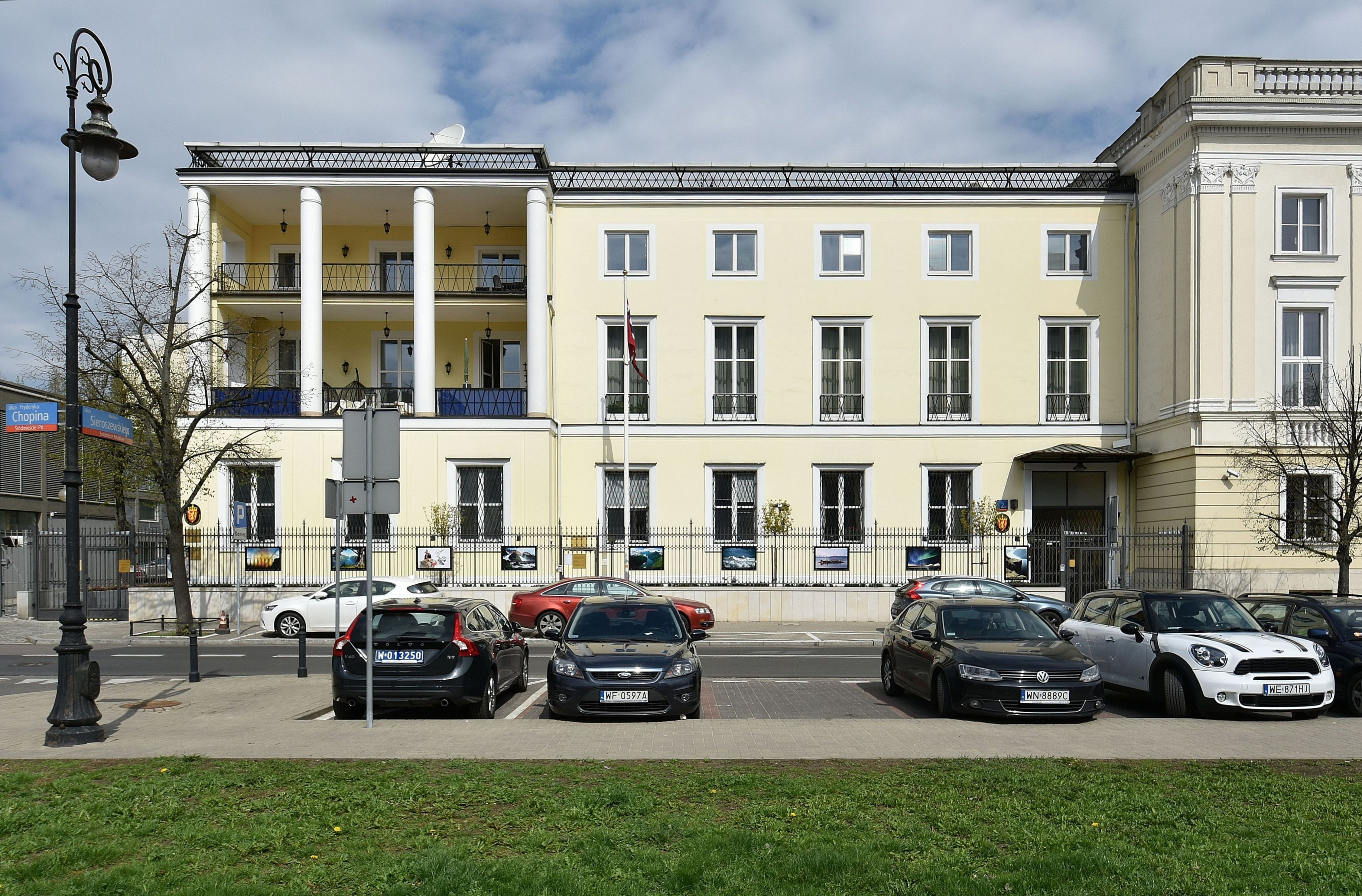 Embassy of Norway in Warsaw